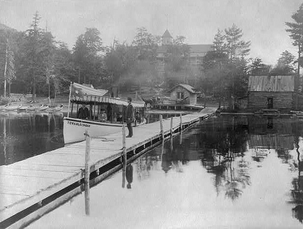 Small steamboat TOWAHLOONDAH by pier on lake in the Adirondack Mtns., N.Y.